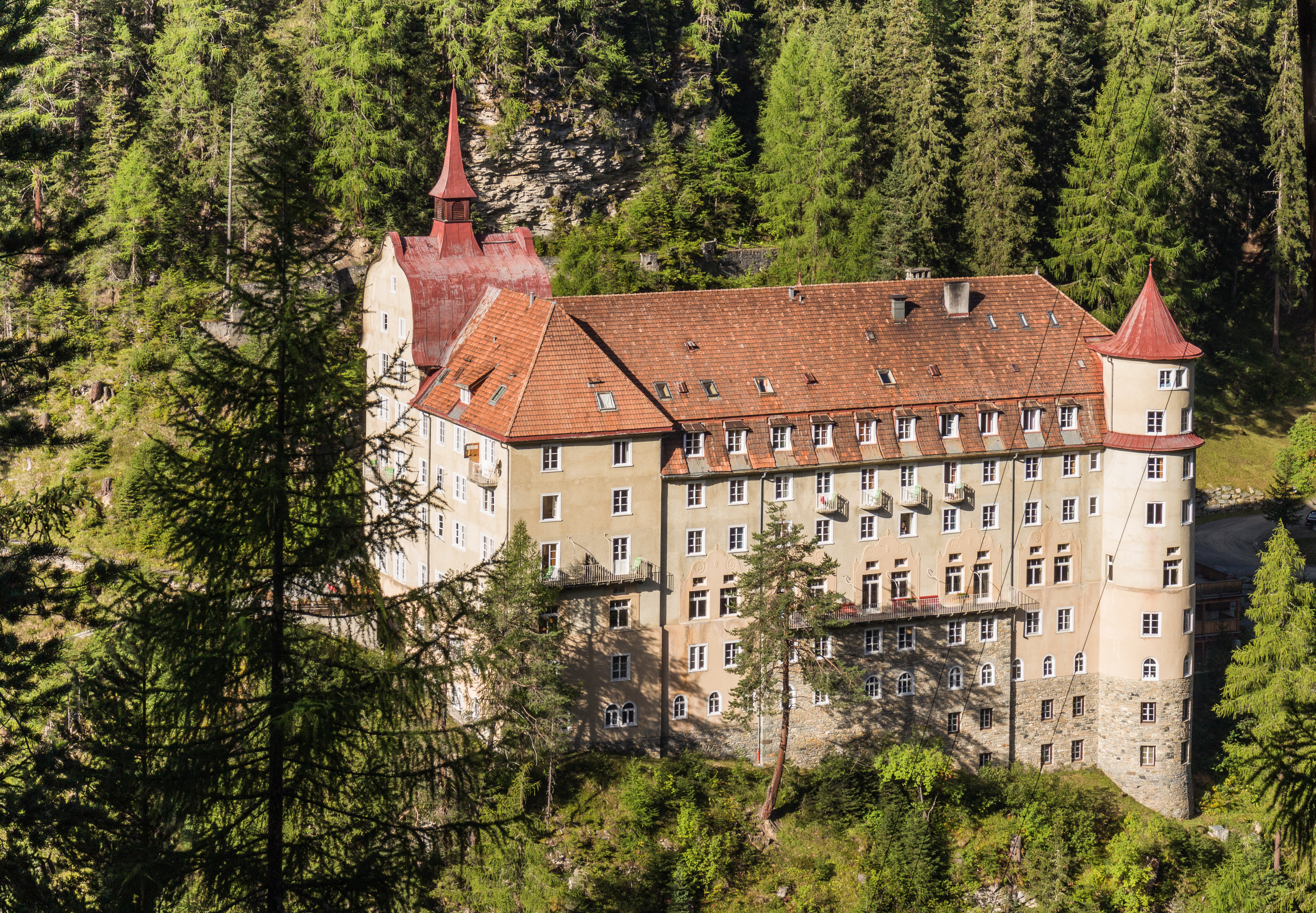 Mountain tour from Val Sinestra via Vnà to Zuort. Kurhaus Val Sinestra.